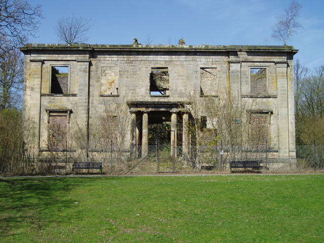 The ruins of Plean House. This ruin which was built around 1800 and destroyed by fire in 1972, sits within Plean Country Park which was established in the 1980's. The ruin is now unsafe but was originally built by Francis Simpson who was a Ship's Captain with The Honourable East India Company.